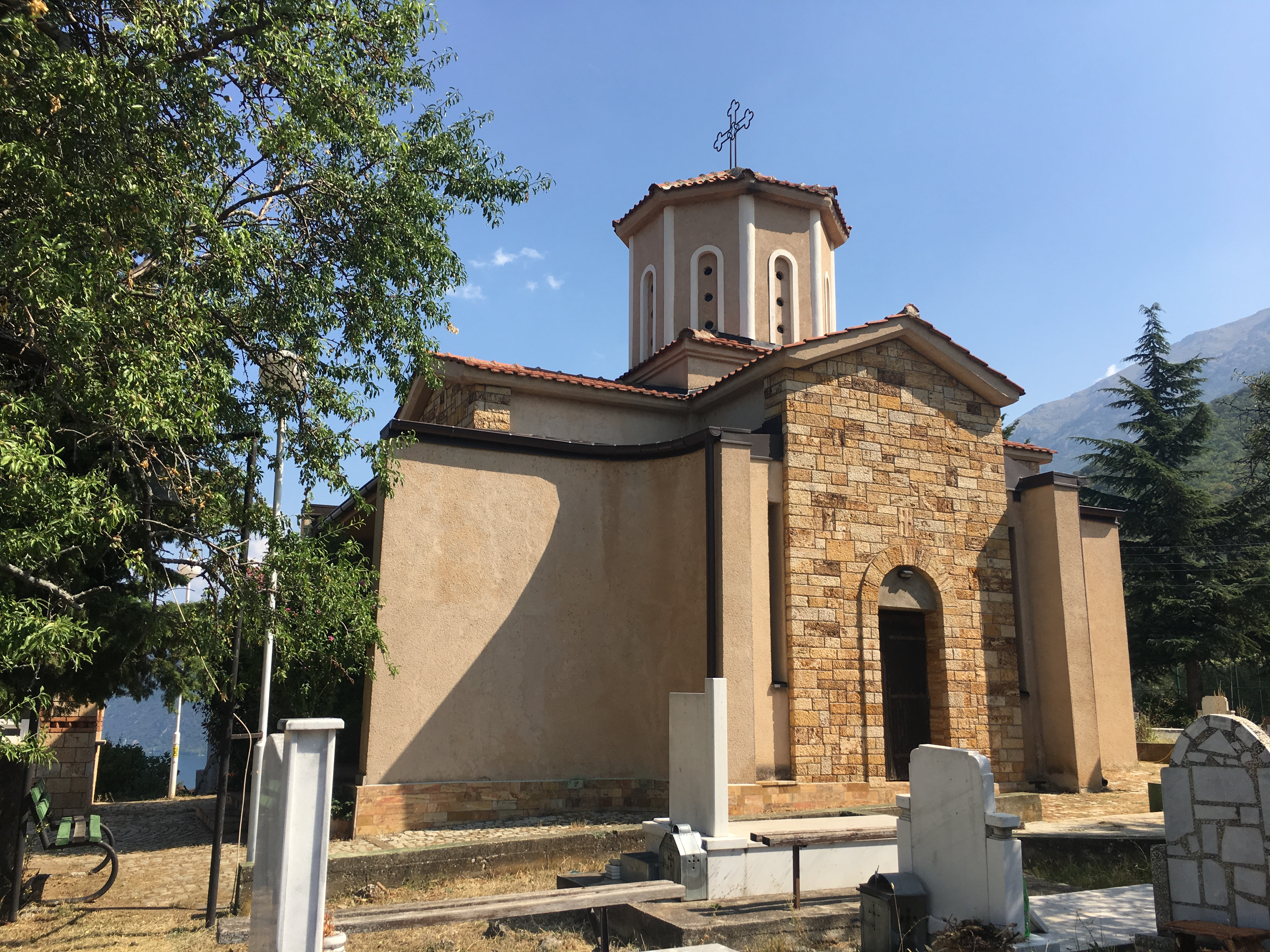 St. Nicholas Church in the village of Ljubaništa